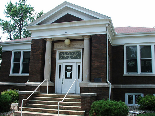 Picture of the facade of LeRoy Public Library.